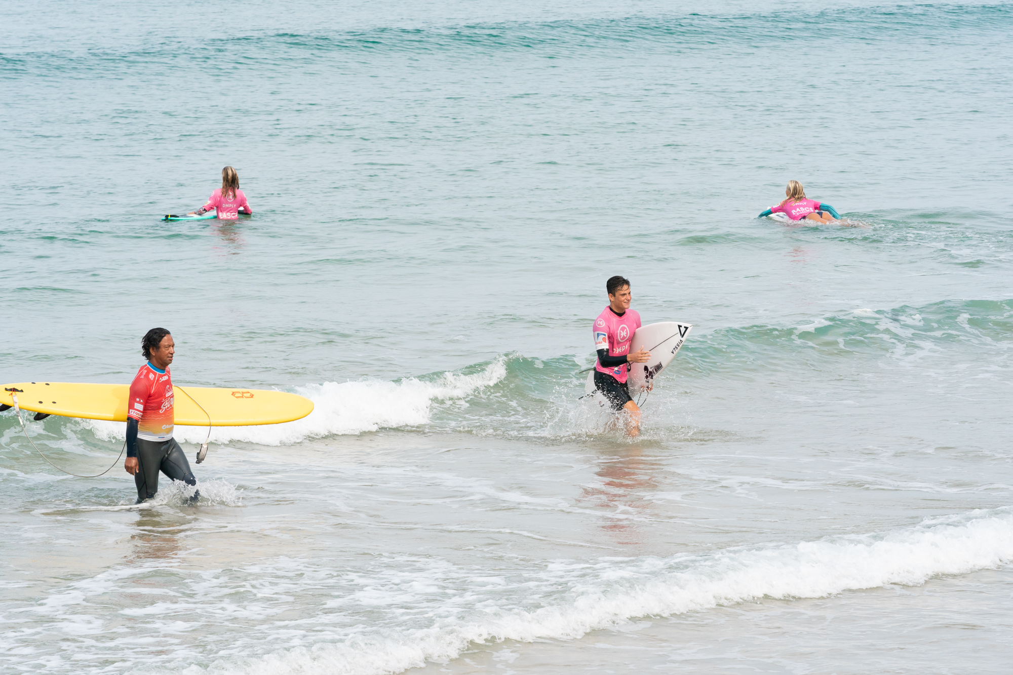 Local children participate in a surfing demonstration for First Lady Melania Trump and the spouses of G7 leaders Monday, Aug. 26, 2019, at the Cotes des Basques Beach in Biarritz, France. (Official White House Photo by Andrea Hanks)